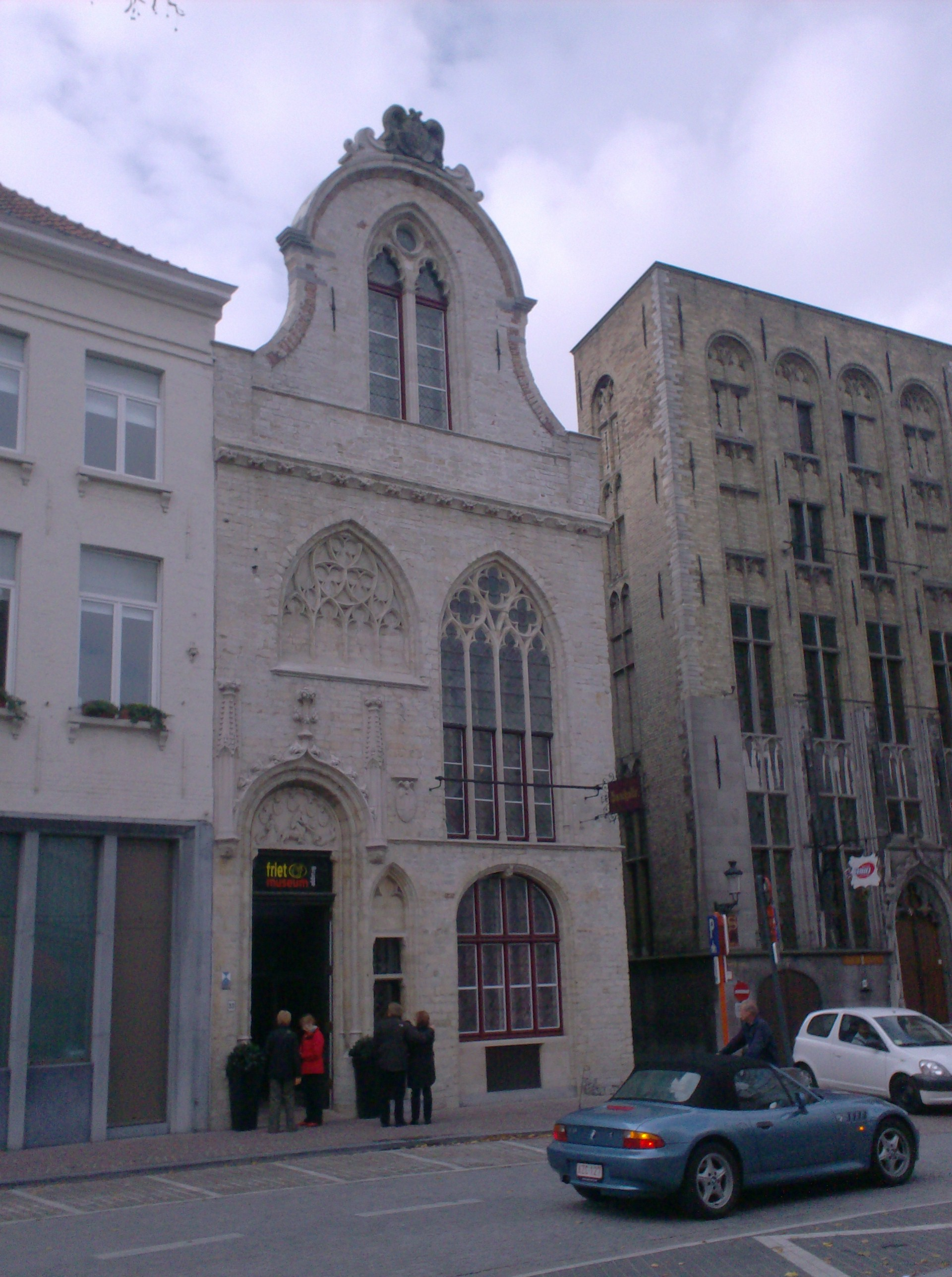 Saaihalle (Wool hall) in Bruges, Belgium